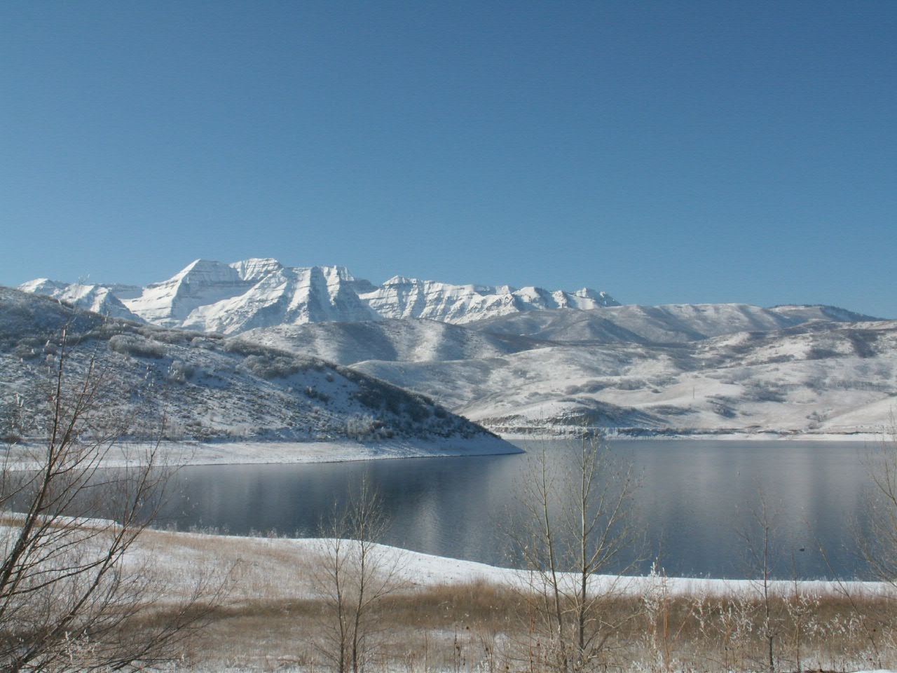 Taken along Highway 189 in the Wasatch Mountains, Utah